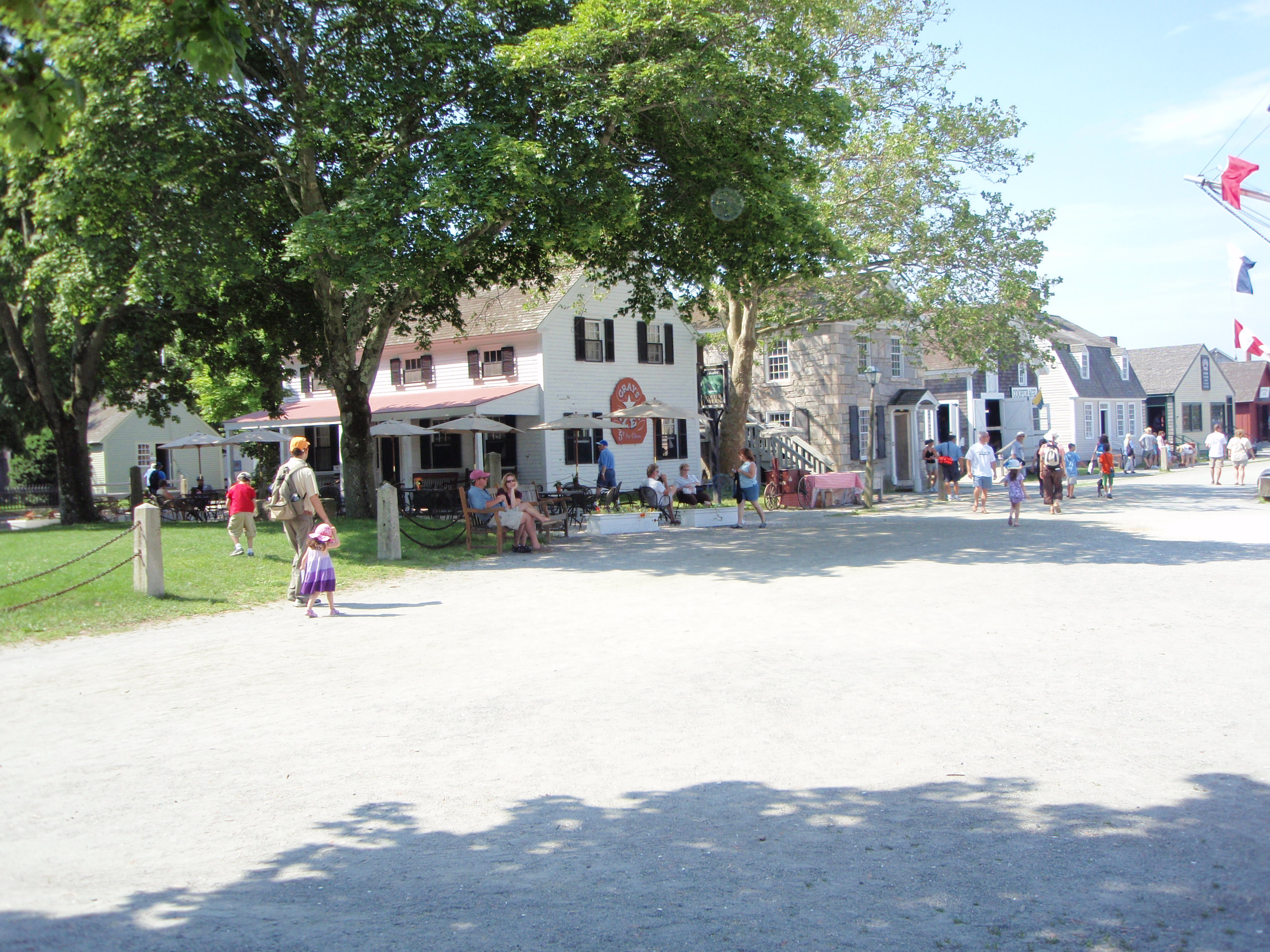 Street, Mystic Seaport, Connecticut